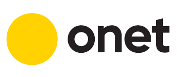 Onet.pl